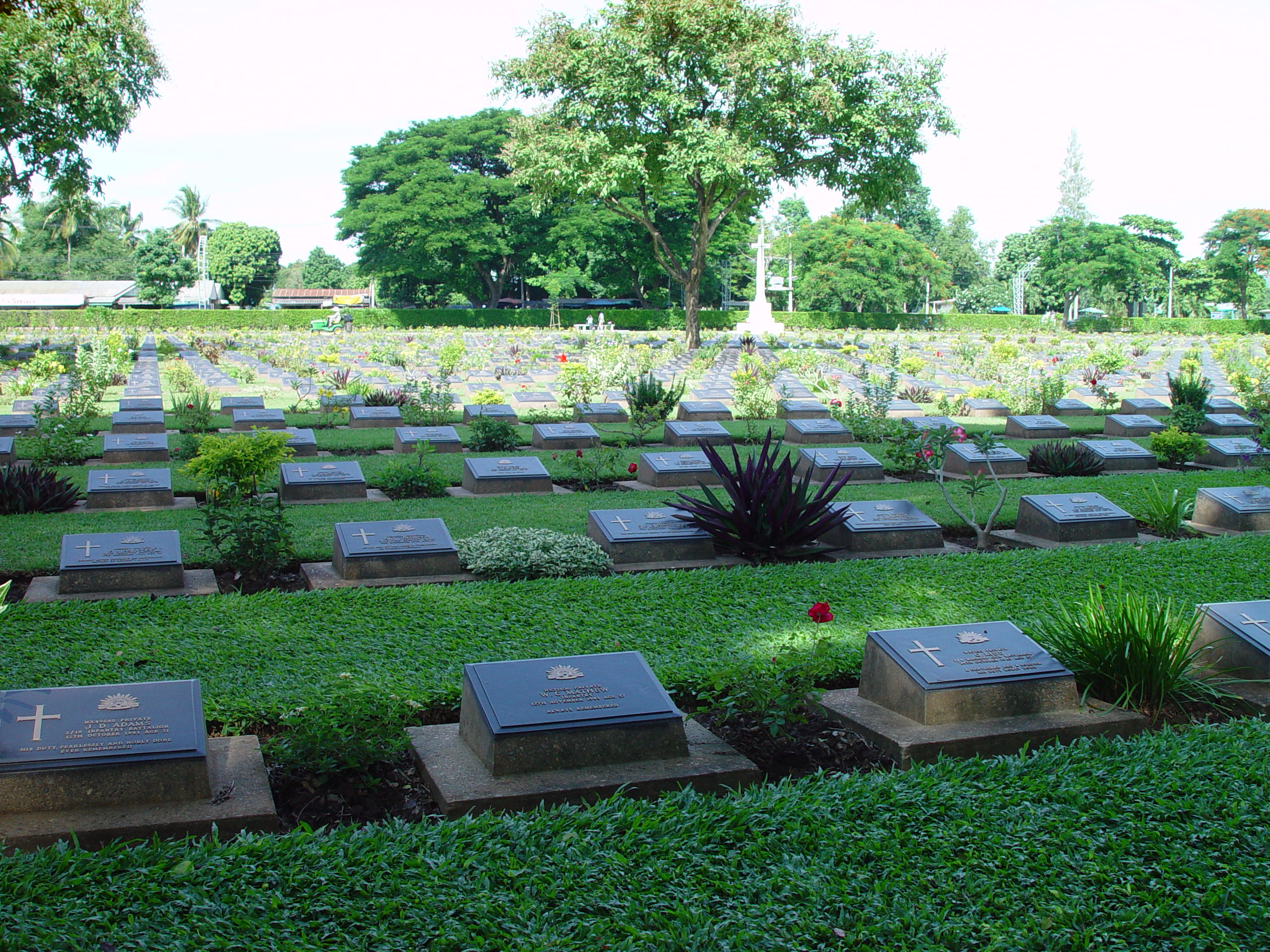 Kanchanaburi War Cemetery, Kanchanaburi, Thailand, WWII I have taken this photo myself in mid 2004 with my own Sony DSC-707. See EXIF record for details